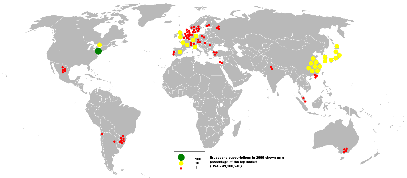 This bubble map shows the global distribution of broadband subscribers in 2005 as a percentage of the top market (USA - 49,380,240). This map is consistent with incomplete set of data too as long as the top producer is known. It resolves the accessibility issues faced by colour-coded maps that may not be properly rendered in old computer screens. Data was extracted on 26th June 2007 from Based on Image:BlankMap-World.png